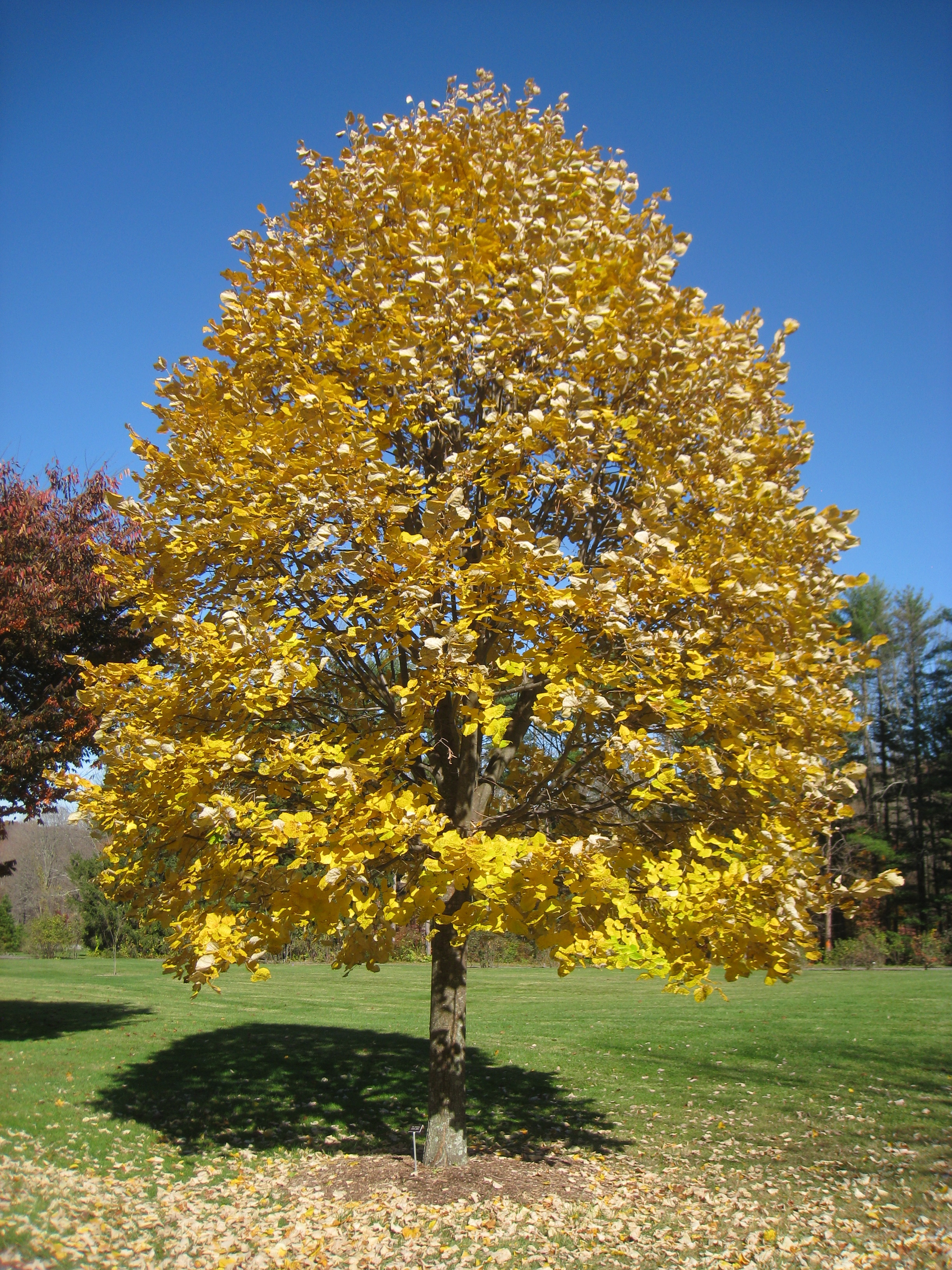 Tilia tomentosa specimen in Lasdon Park and Arboretum, Somers, New York, USA.